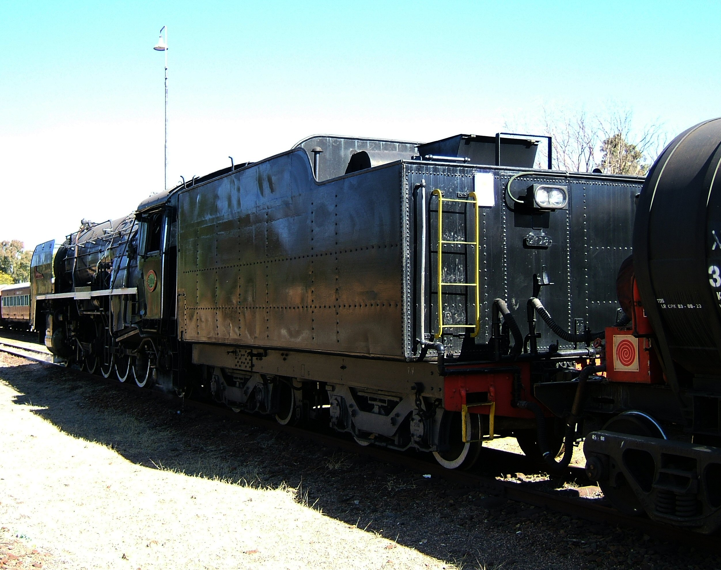 Friends of the Rail; Class 15F-3117